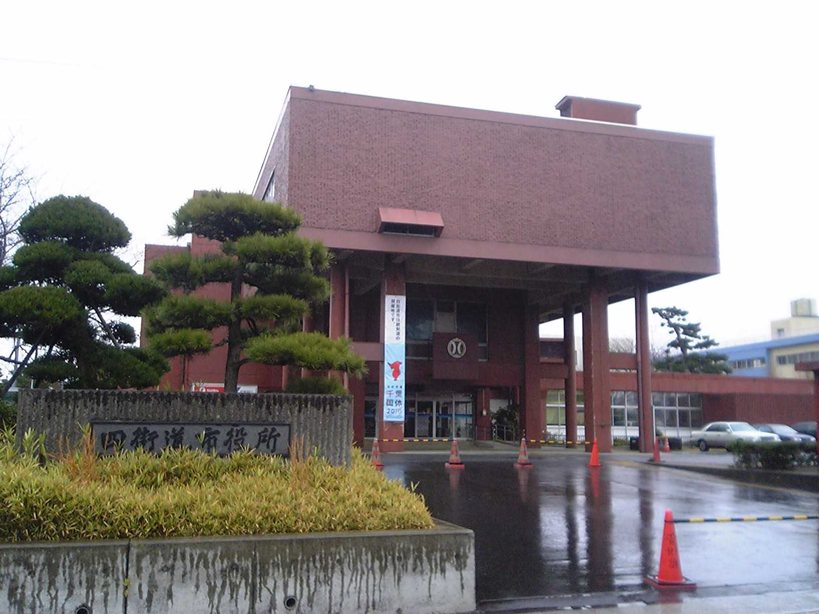 Yotsukaido City Hall